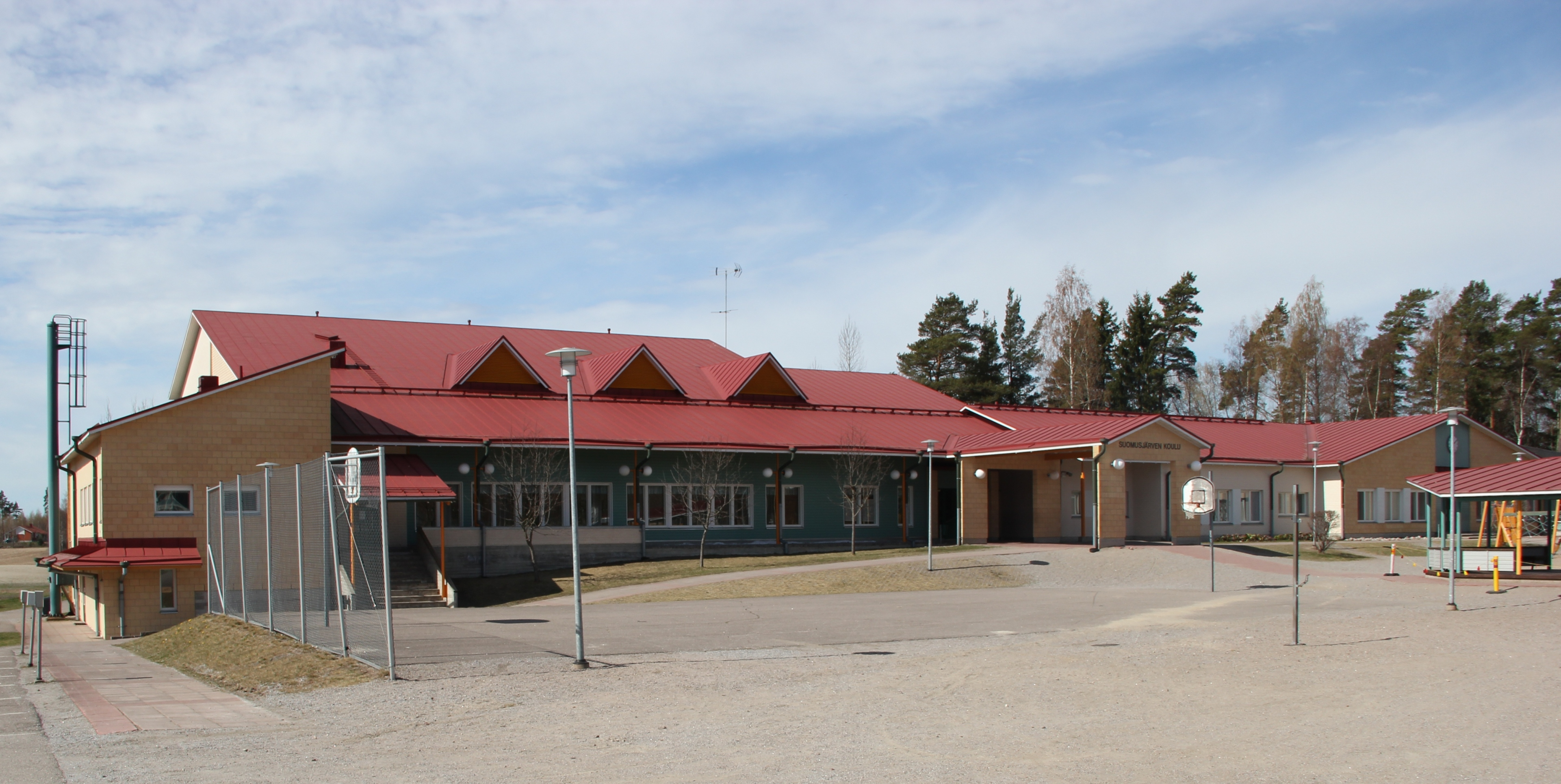 Suomusjärvi School in Kitula, Suomusjärvi, Salo - primary school